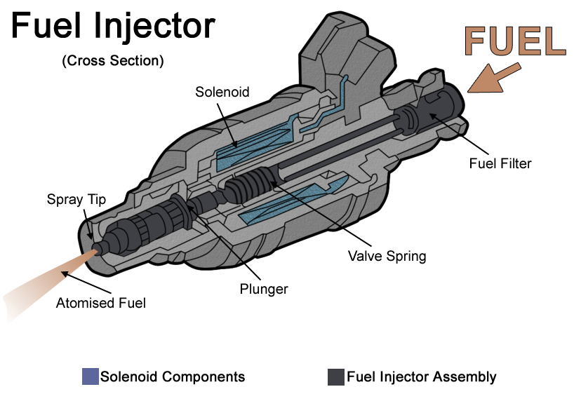 Cut away diagram of a fairly basic fuel injector for the fuel injection article